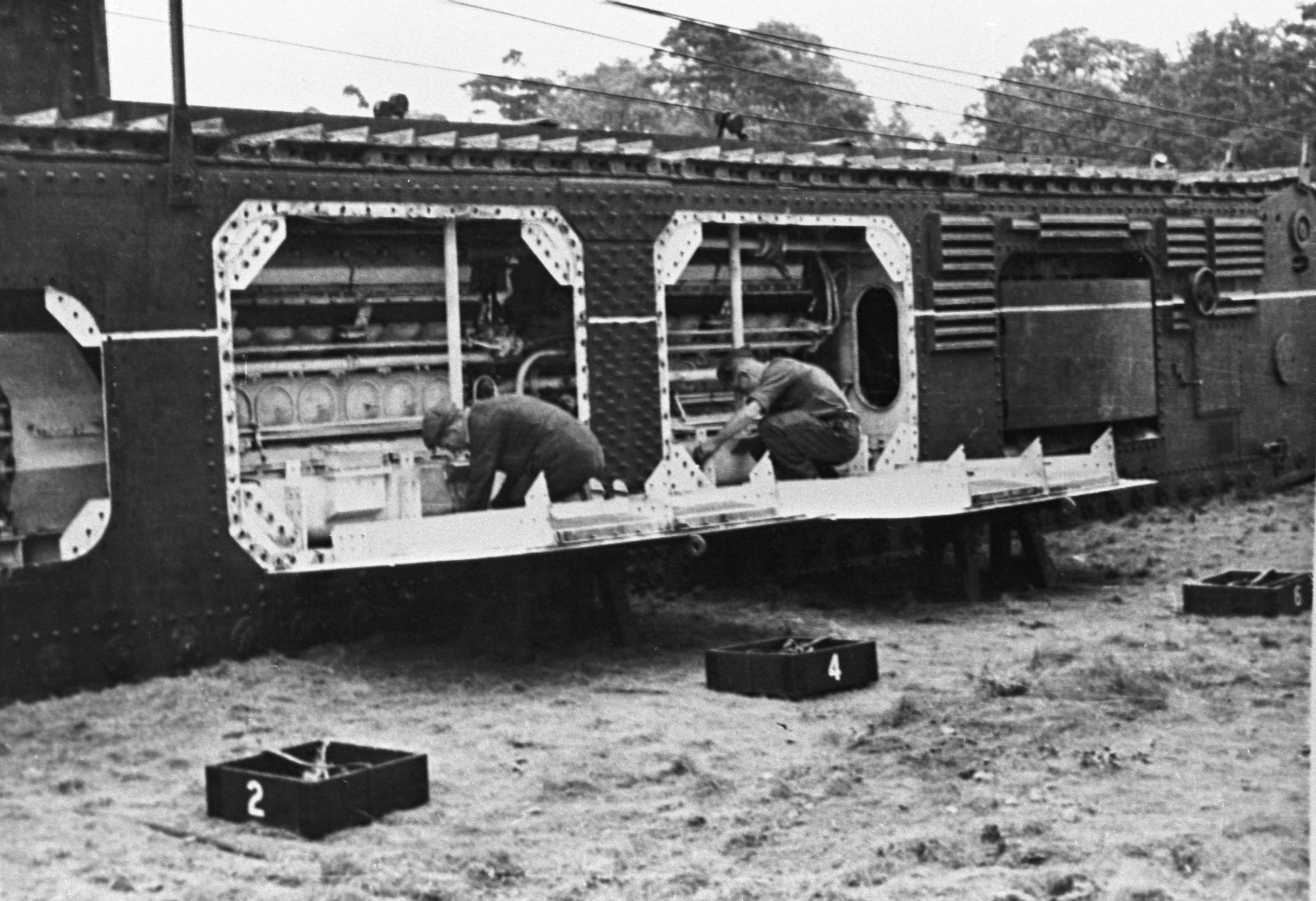 A view of the Land Excavating Trenching otherwise known as White Rabbit No. 6, Cultivator No. 6 or Nellie. This machine was an underground tank developed in 1939-1940 and designed to travel across no man's land in a trench of its own making. Nellie engine compartment.